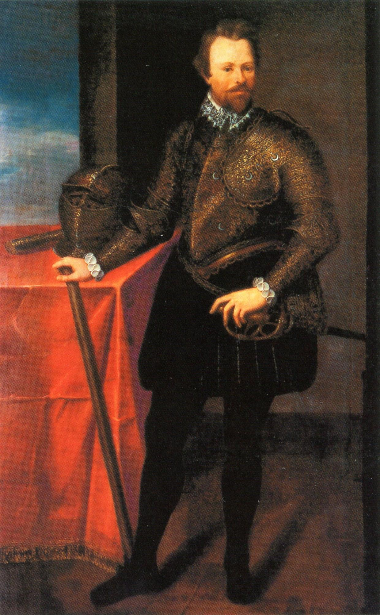 Sweden's Prince Charles Philip, Duke of Södermanland, a portrait kept at Wilanów Palace in Poland